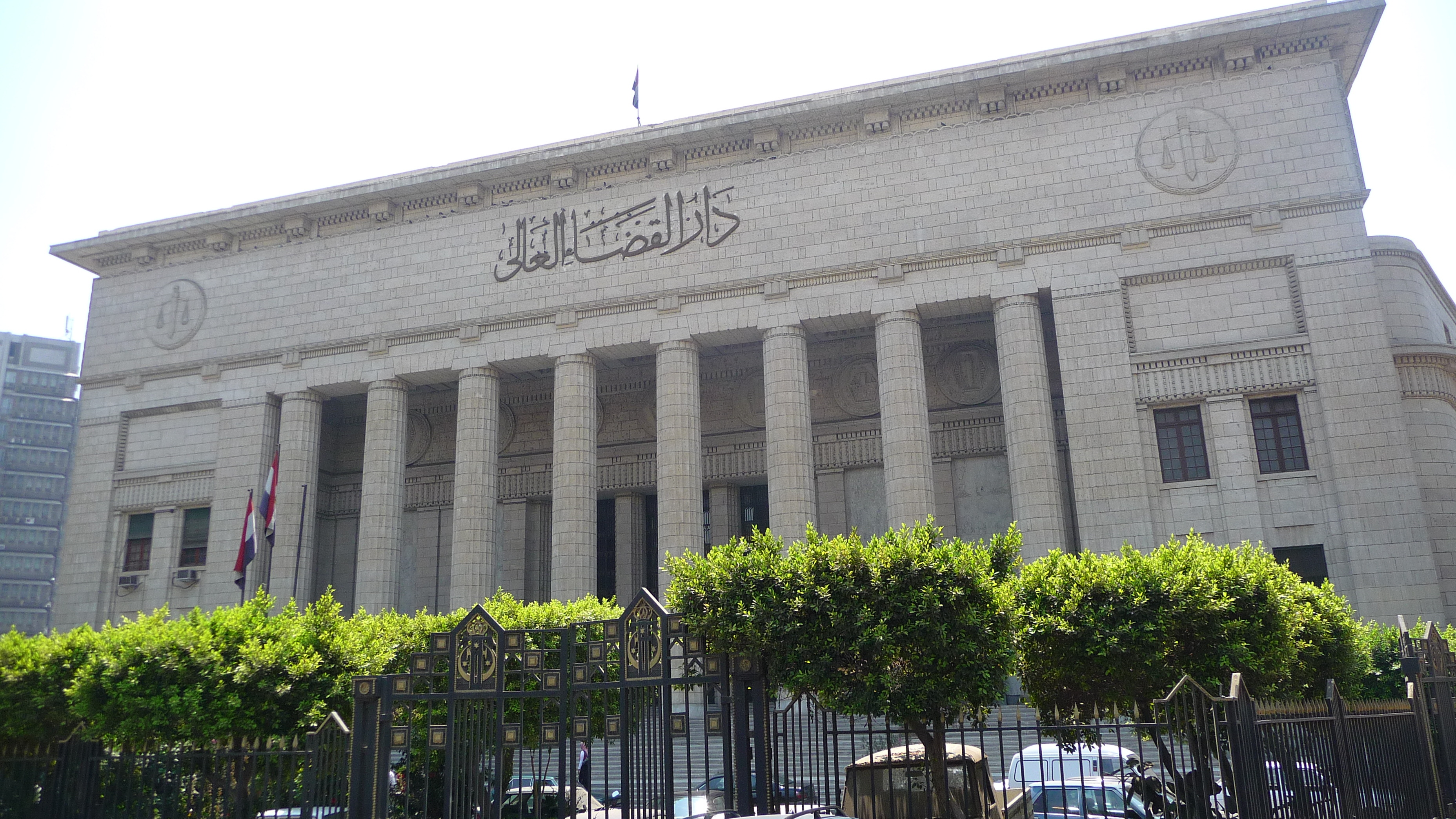 This is the building of the Egyptian High Court of Justice (Arabic: دار القضاء العالي), as evidenced by the inscription on its frontispiece. The High Court of Justice is located in Downtown Cairo - in Al Es'af square on the 26th of July Street. NOTE The original uploader erroneously claimed that this photograph depicted the Supreme Constitutional Court of Egypt (Arabic: المحكمة الدستورية العليا). However, the Supreme Constitutional Court is a uniquely recognizable building built in a neo-pharaonic style, and is located on the Maadi Nile Corniche, next to the Armed Forces Hospital.